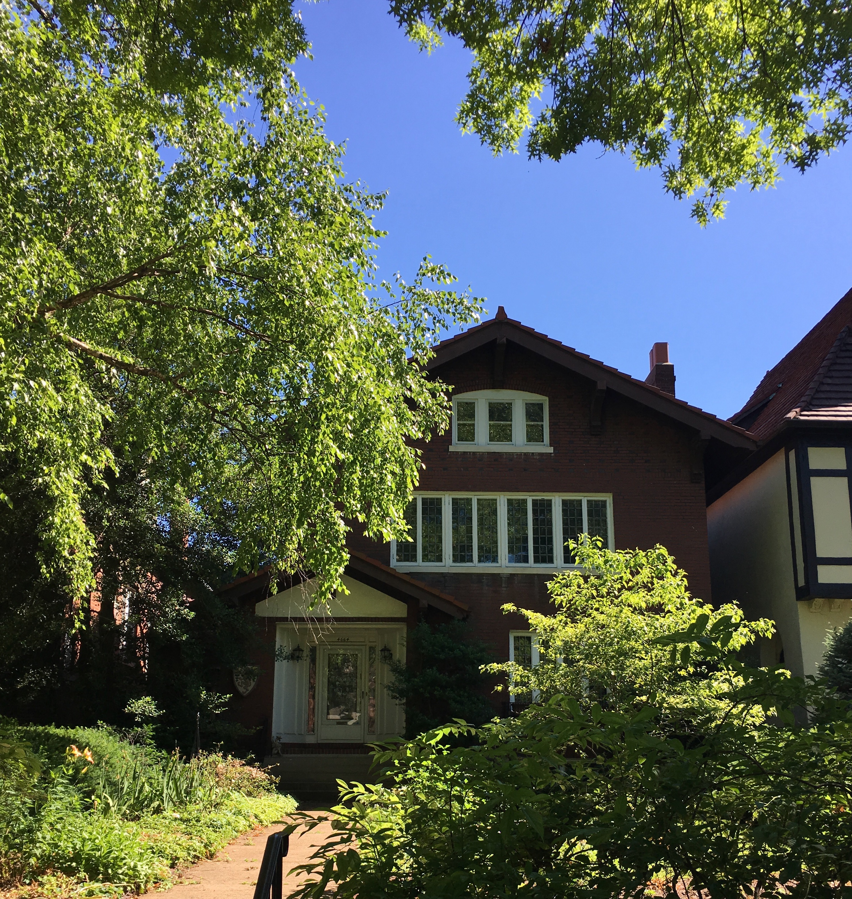 William S. Burroughs' childhood home on Pershing Avenue in St. louis